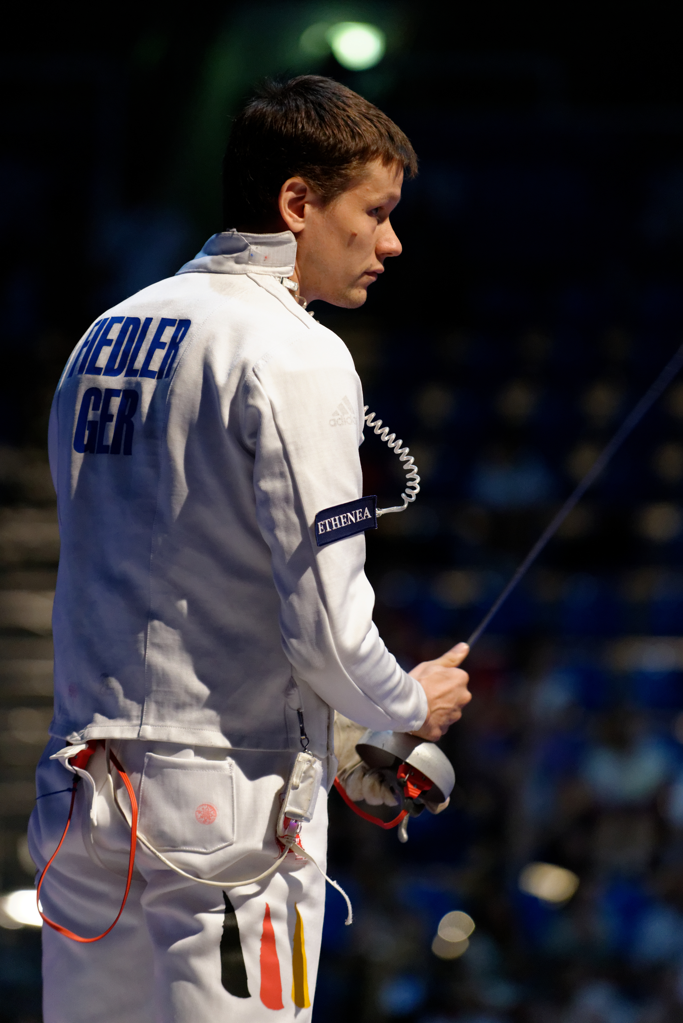 Germany's Jörg Fiedler during his bout against Jiri Beran from the Czech Republic in the table of 32 of the men's épée event in the 2013 World Fencing Championships 2013 at Syma Hall in Budapest, 8 August 2013.